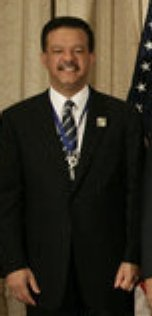 Leonel Fernández Reyna, President of the Dominican Republic, at the Summit of the Americas, November 2005.